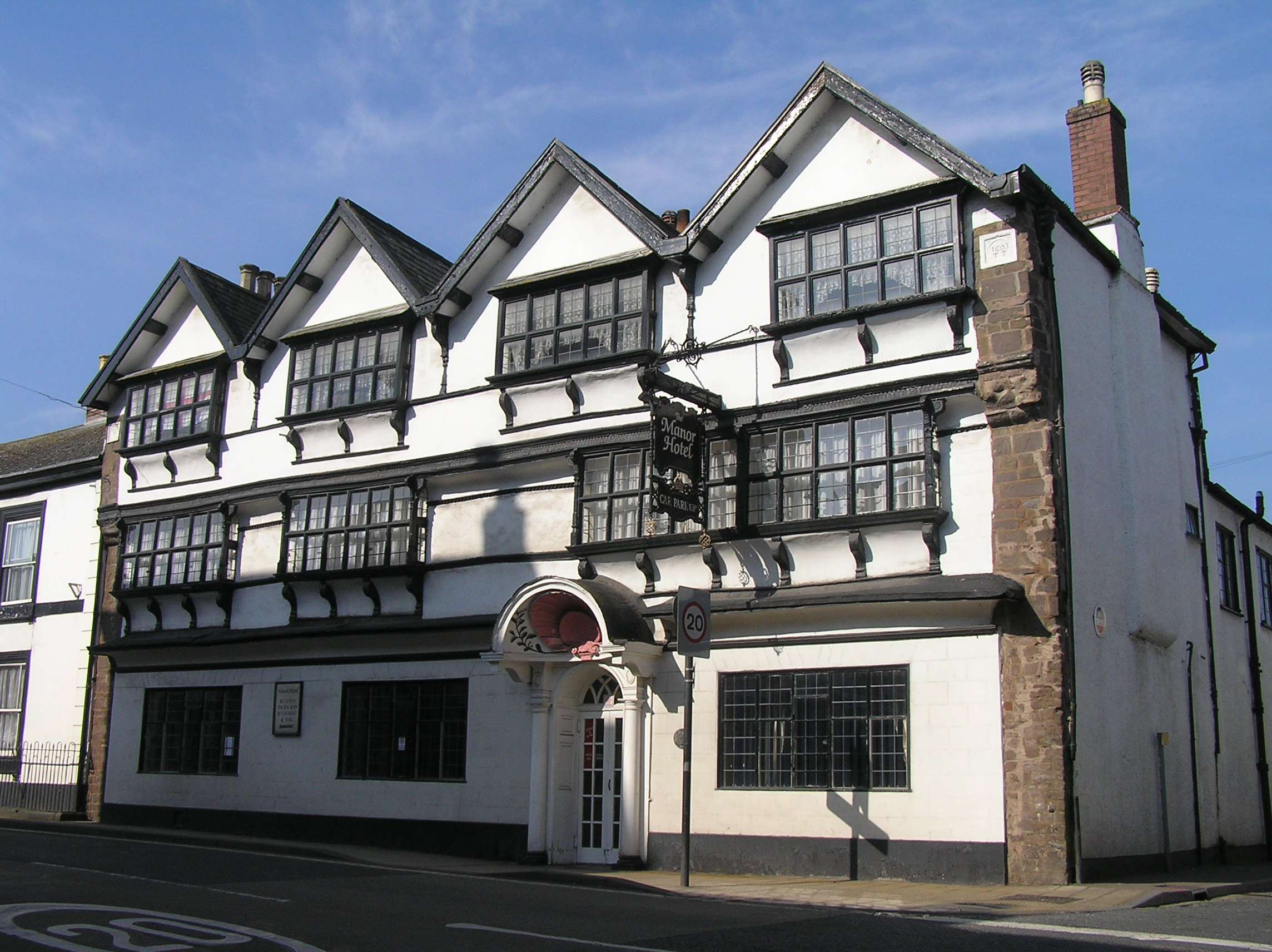 The Manor House Hotel in Cullompton, Devon, UK.